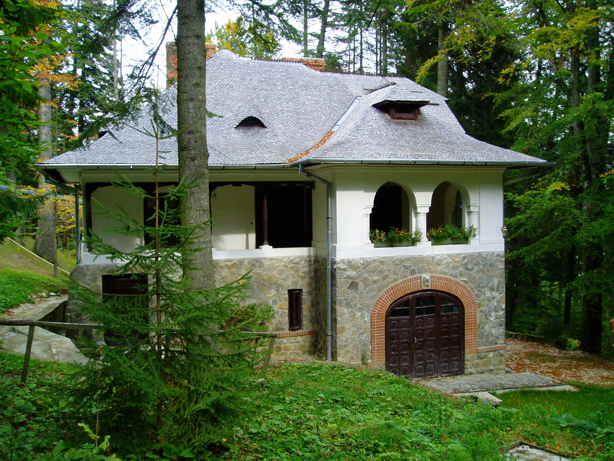 Villa of Nicolae Iorga, Sinaia, Romania Architect: Toma T. Socolescu. This villa is located at the crossing of Codrului street and Gheorghe Doja street in Furnica area in Sinaia, Judeţul Prahova, Romania. It is classified historical monument. We are the only heirs and descendants of Toma T. Socolescu (died in 1960 in Bucharest) and therefore owner of all his intellectual rights.